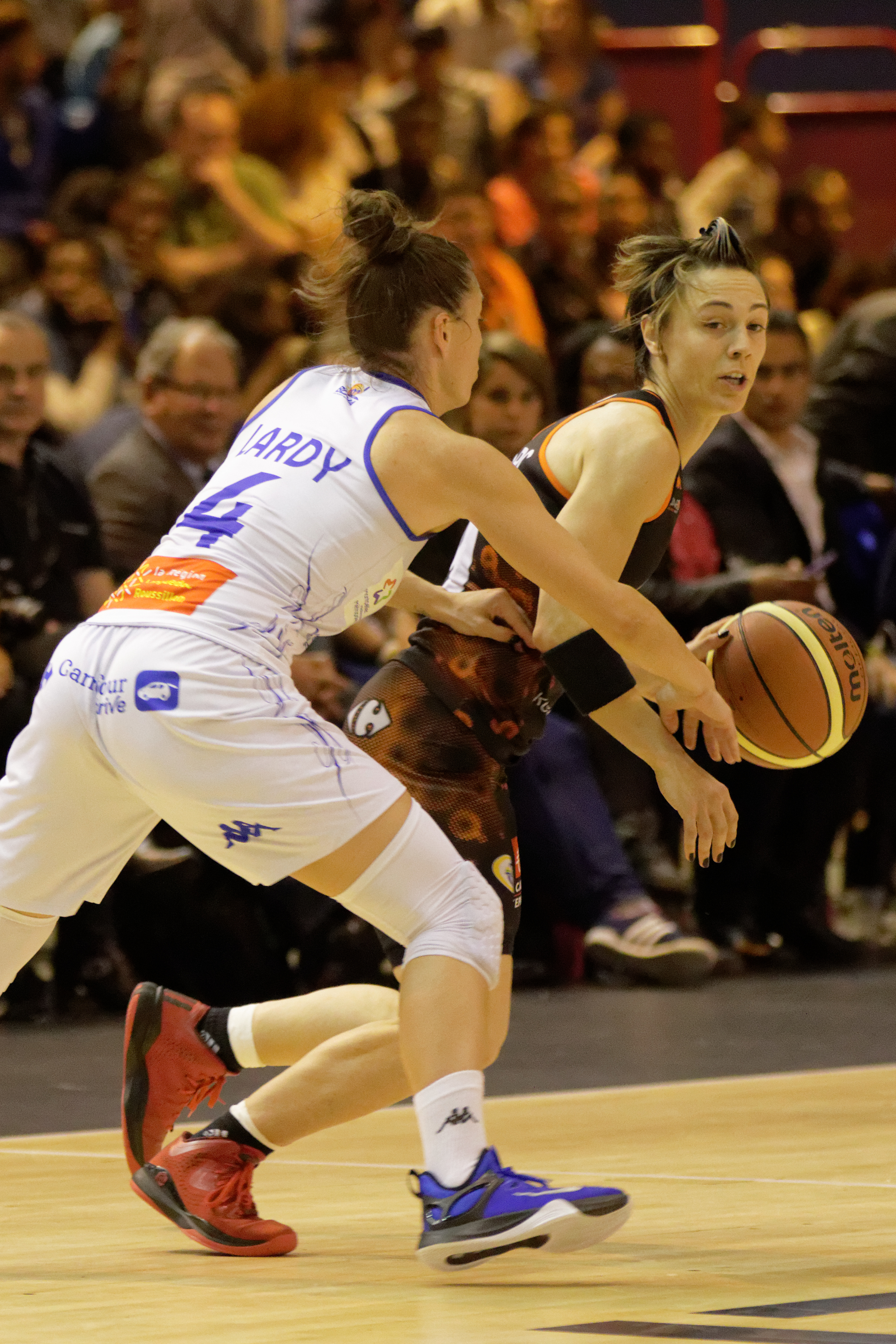 Final of the French Basketball Cup, Lattes-Montpellier vs Bourges, 2nd May 2015.